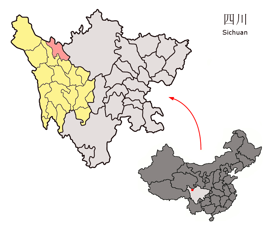 Location of Sêrtar County (pink) and Garzê Prefecture (yellow) within Sichuan province of China Map drawn in september 2007 using various sources, mainly : Sichuan province administrative regions GIS data: 1:1M, County level, 1990 Sichuan Counties map from